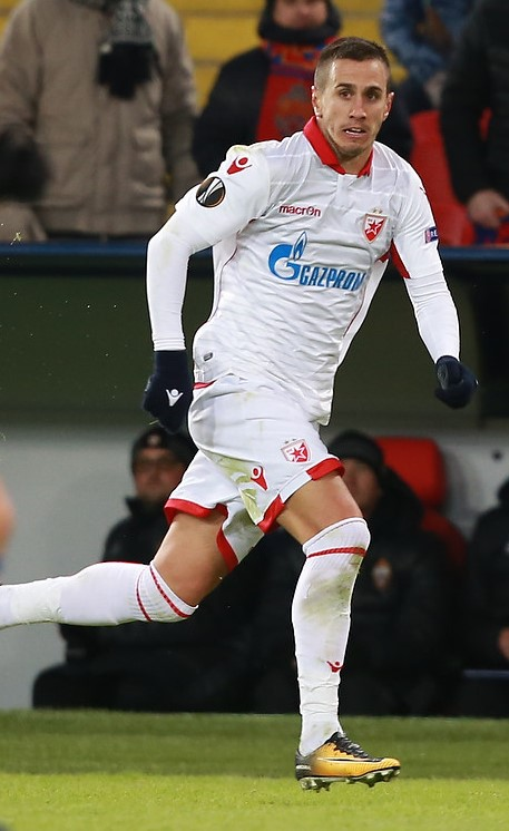 Aleksandar Pešić